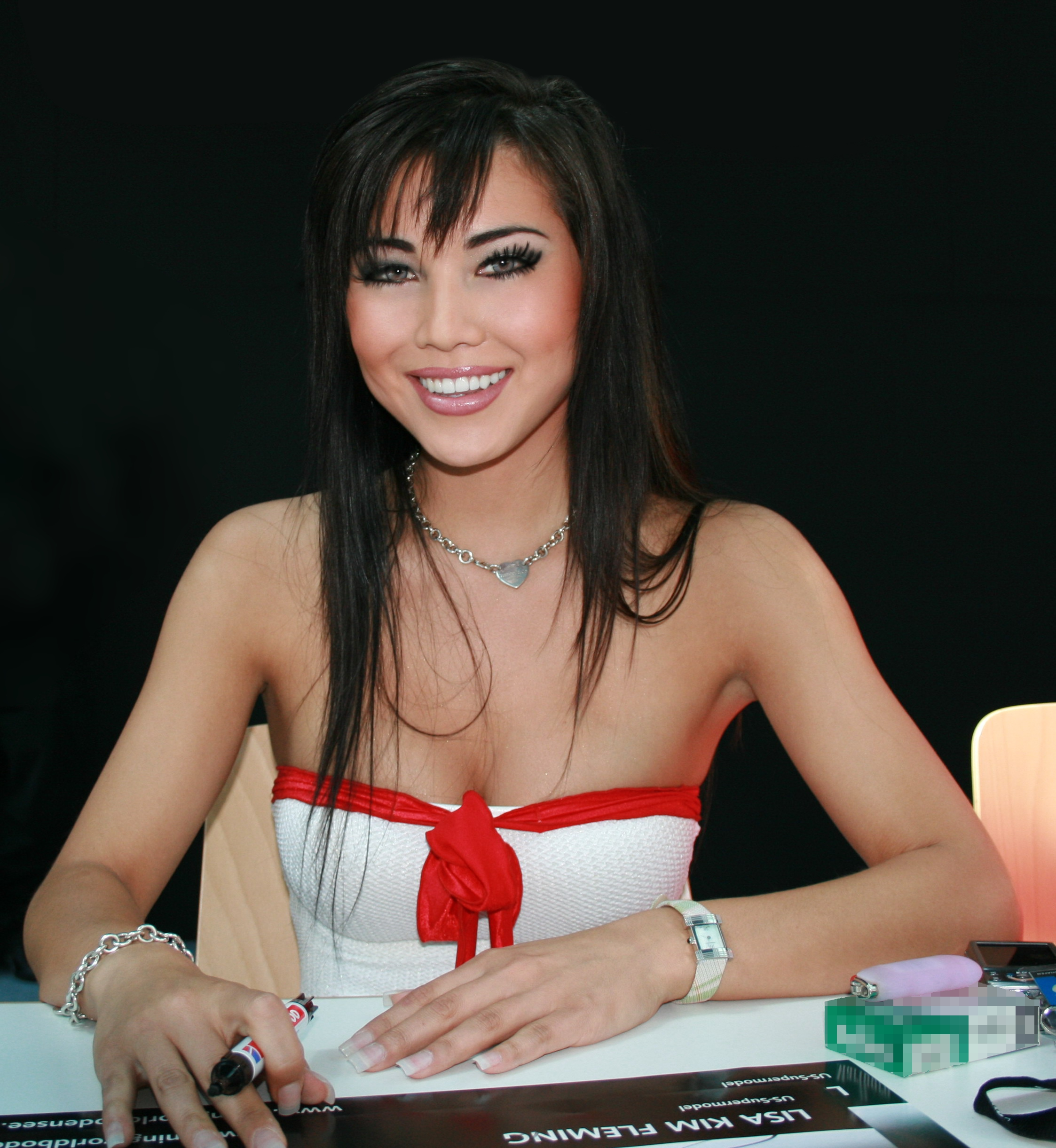 Lisa Kim Fleming